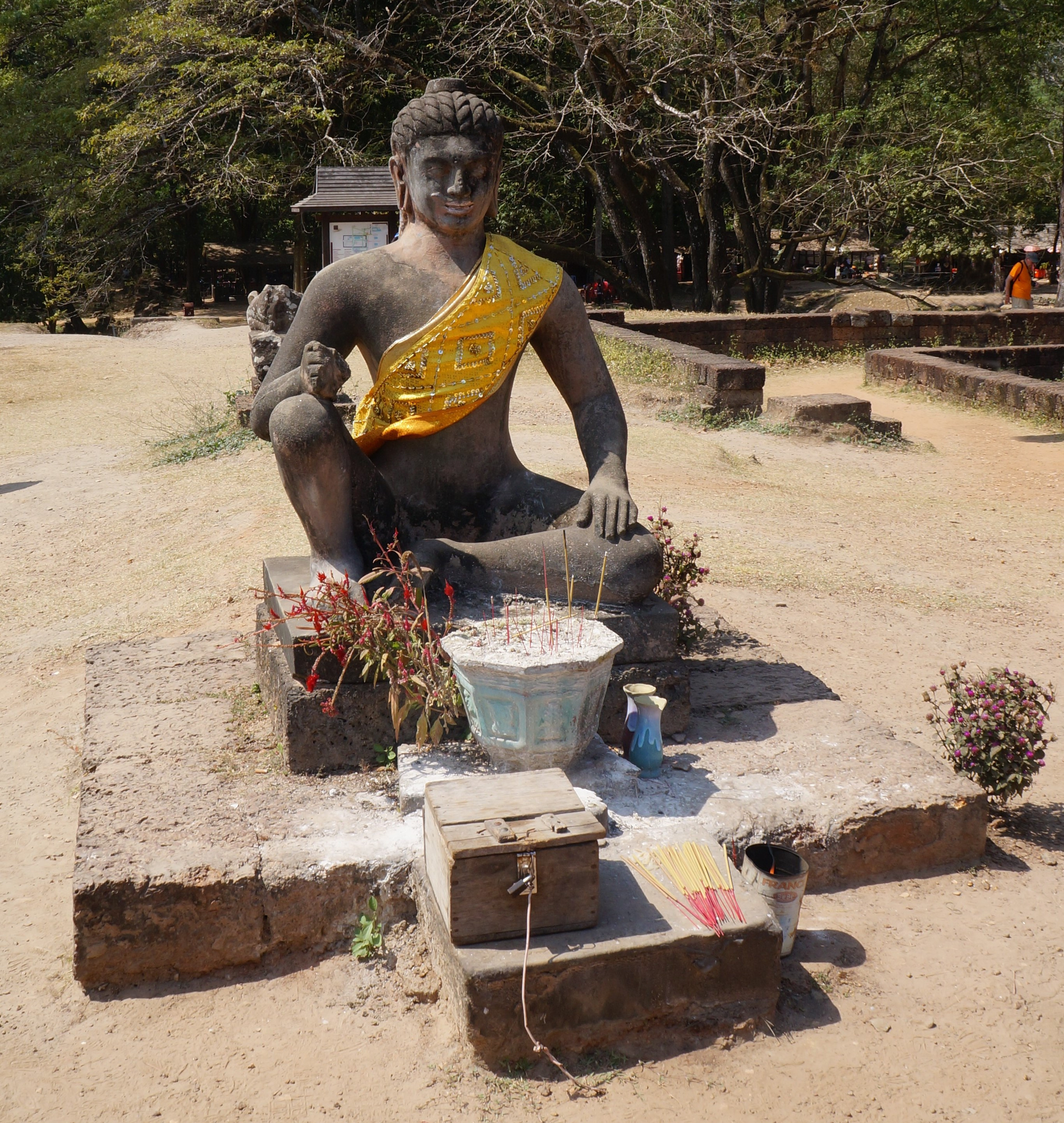 The "Leper King" Yama, Lord of the Dead on the Terrace